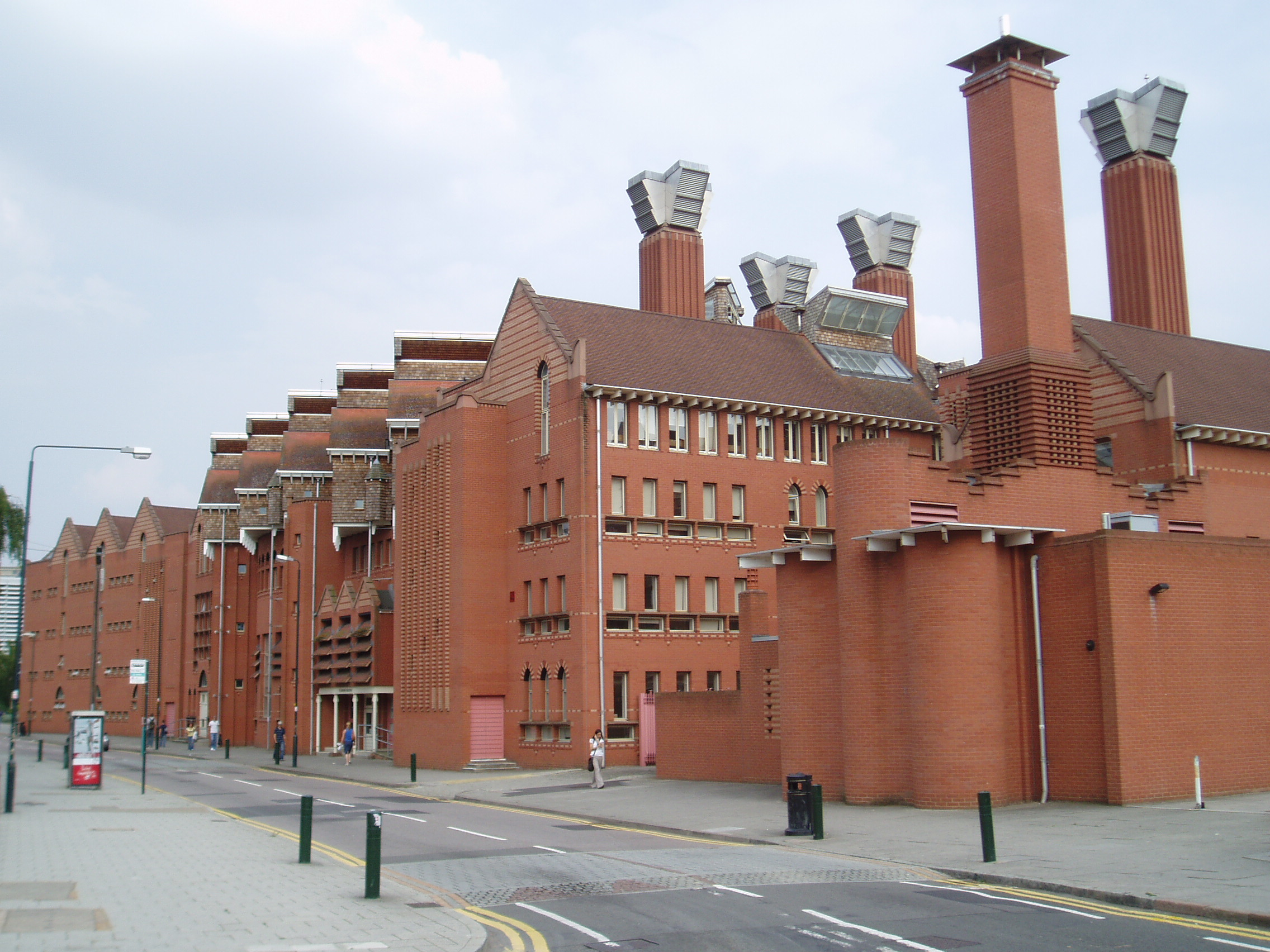 Queens Building, De Montfort University, LeicesterQueens Building 1